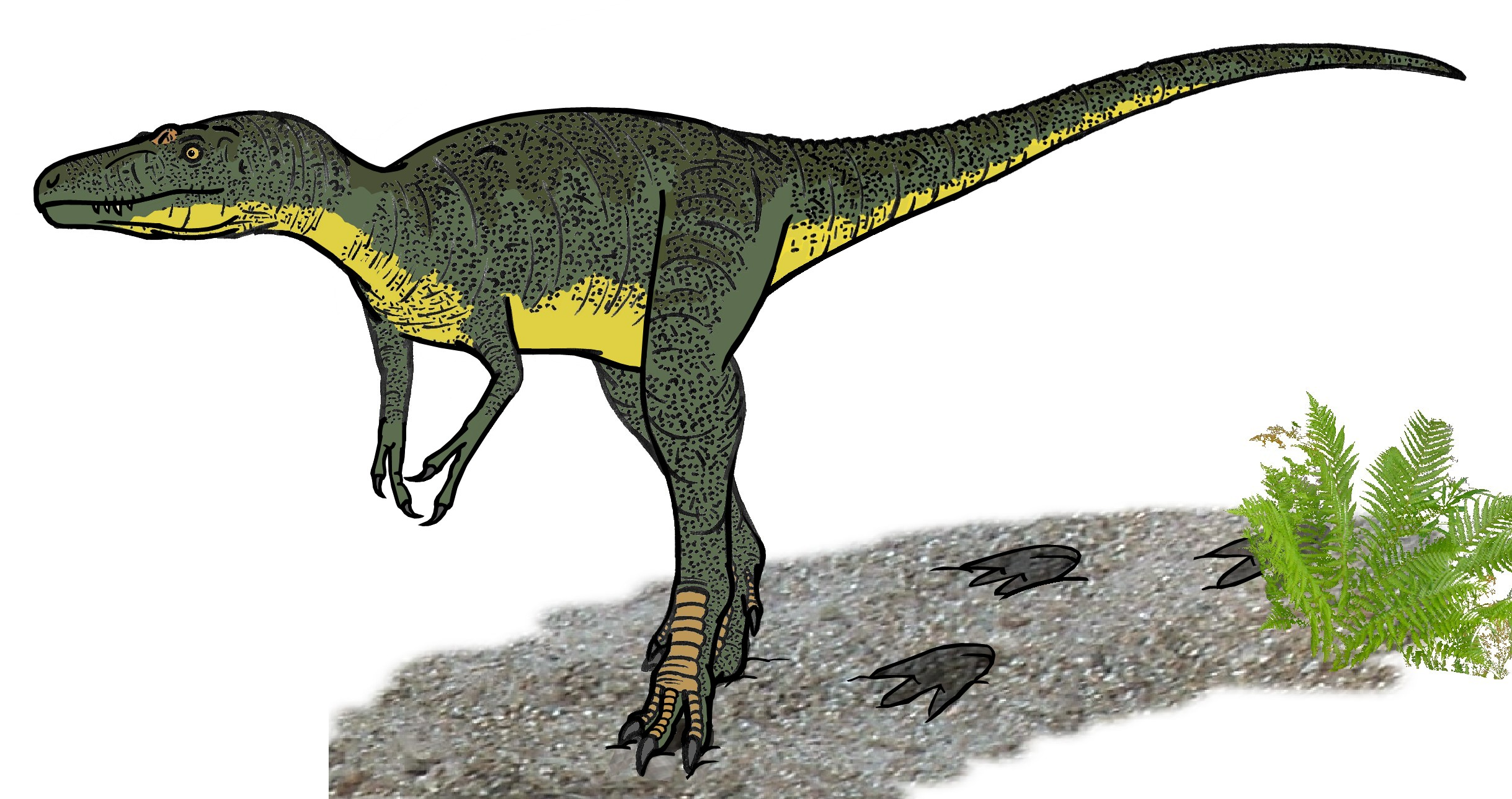 Restoration of Nanotyrannus lancensi, a nomen dubium genus of theropod dinosaur from North America, late Cretaceous period. Some scientists regards the known fossils of it as remains from juvenile specimens of Tyrannosaurus rex. See also. Holotype skull. Skeleton of "Jane" (BMRP 2002.4.1) a Nanotyrannus (or juvenile Tyrannosaurus). Known skeletal pieces from "Jane". Skull of "Jane". Size comparison between Nanotyrannus and a Tyrannosaurus.